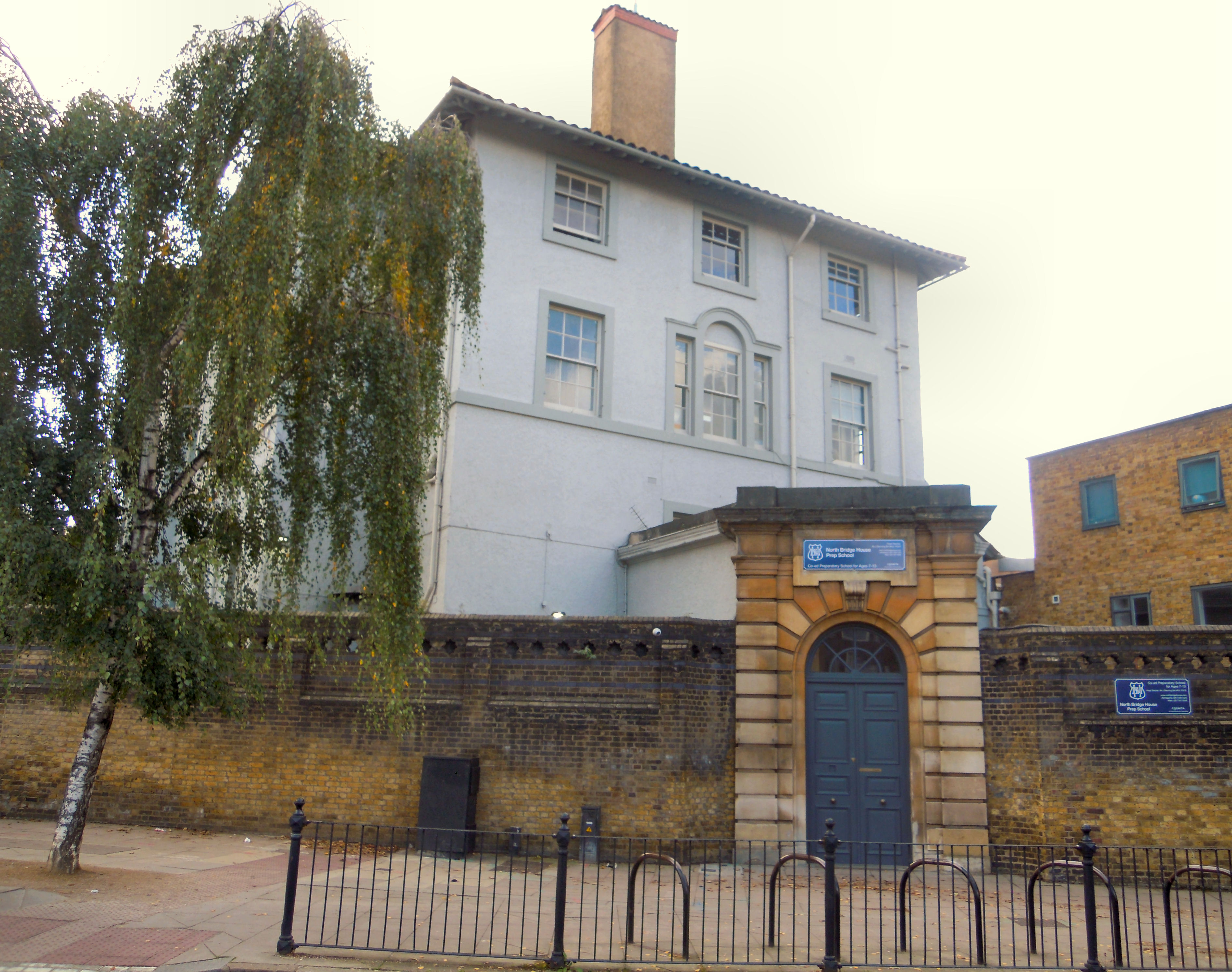 The former Convent of Society of the Helpers of the Holy Souls on Gloucester Avenue in Regents Park in London. Since 1976 it has been used for educational purposes